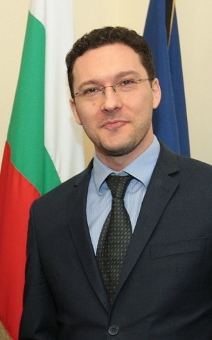 Minister Mitov and Secretary General of the Regional Cooperation Council Goran Svilanovic